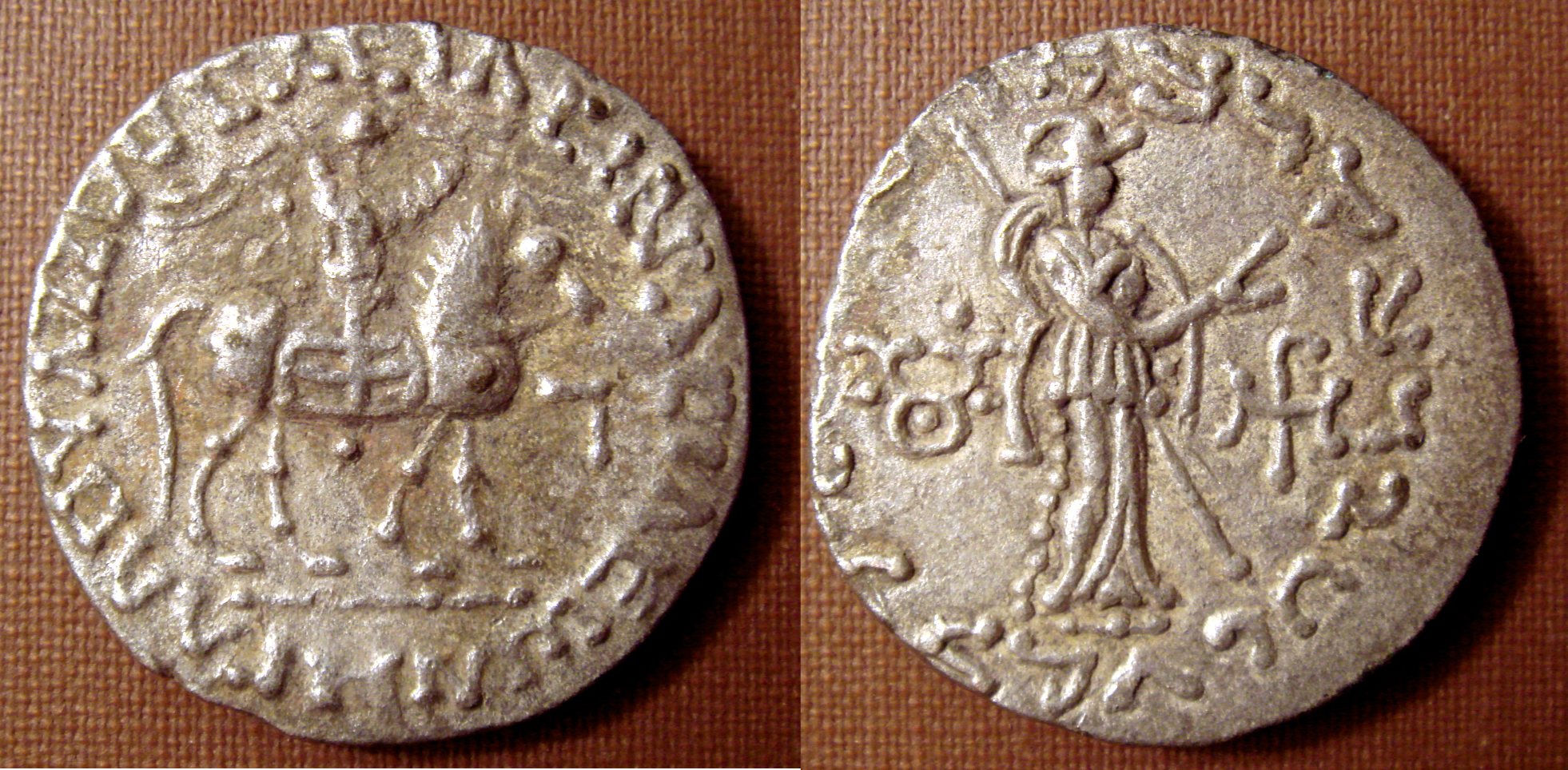 Coin of Azes II. Personal photograph, personal coin.